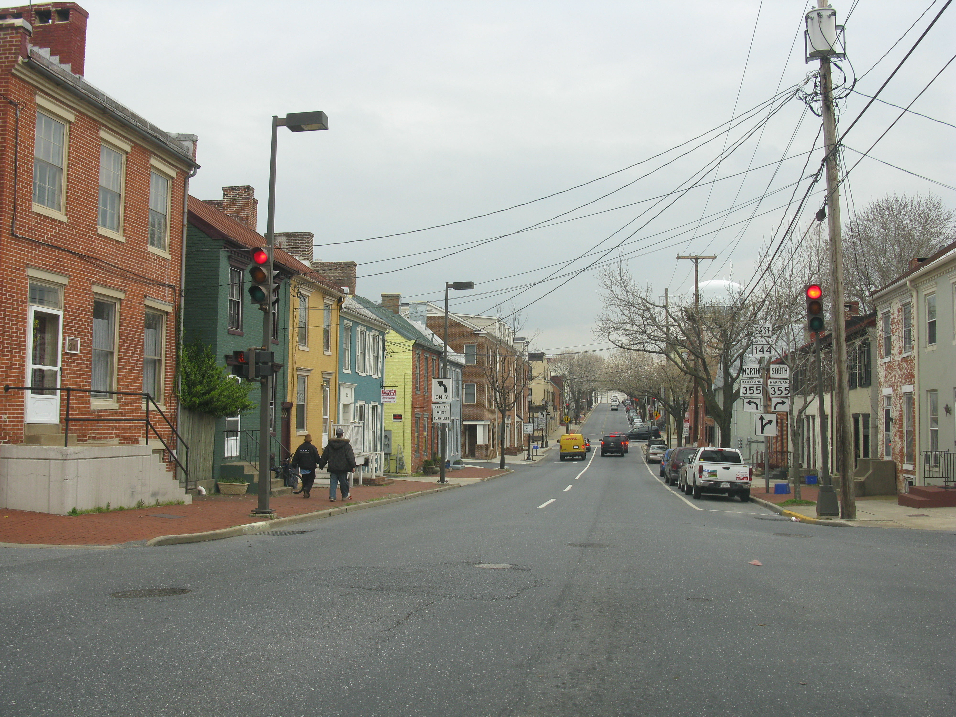 MD 144/355 (E Patrick St) at Ice Street / Court Street, Frederick, MD